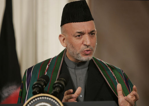 President Hamid Karzai, of the Islamic Republic of Afghanistan, responds to a reporter's question Tuesday, Sept. 26, 2006, during a joint availability with President George W. Bush in the East Room of the White House. Said President Karzai, "I think it is very important that we have more dedication and more intense work with sincerity, all of us, to get rid of the problems we have around the world." White House photo by Paul Morse full story